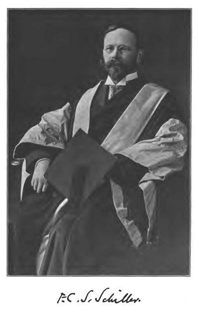 Source (book in public domain): Slosson, Edwin E. Six Major Prophets. Boston, 1917.